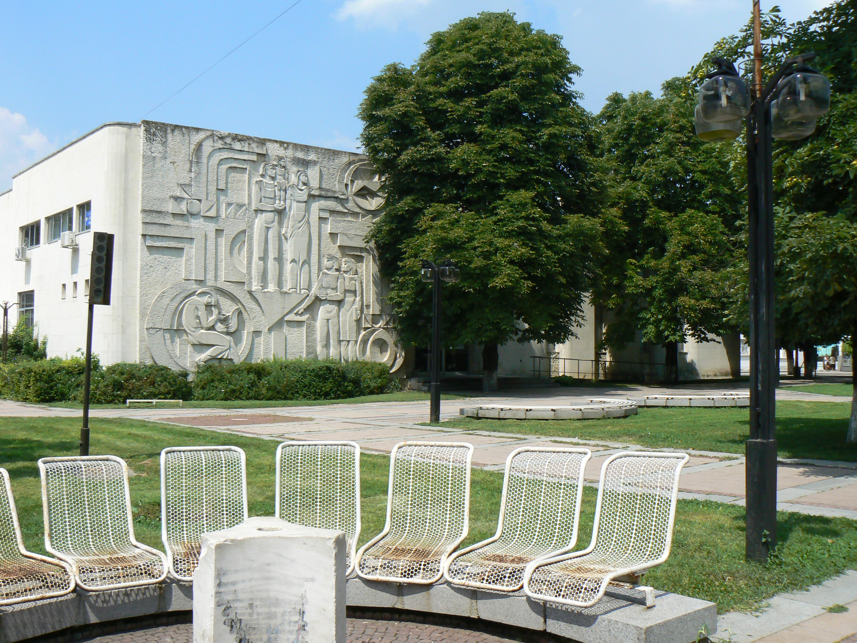 "Rusi Karabiberov" Art Gallery in Nova Zagora, Bulgaria